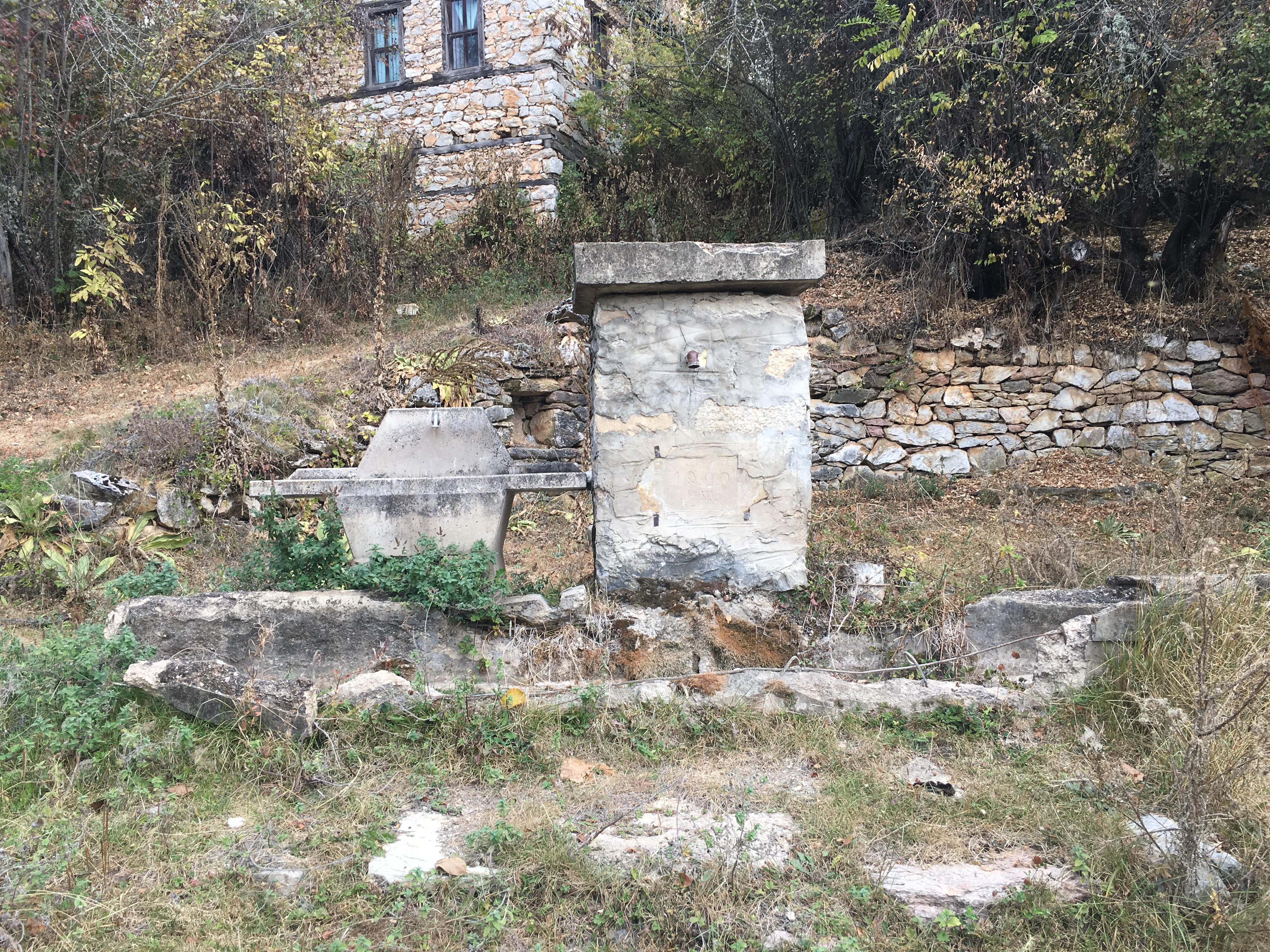 Wikiexpedition to Kopačka